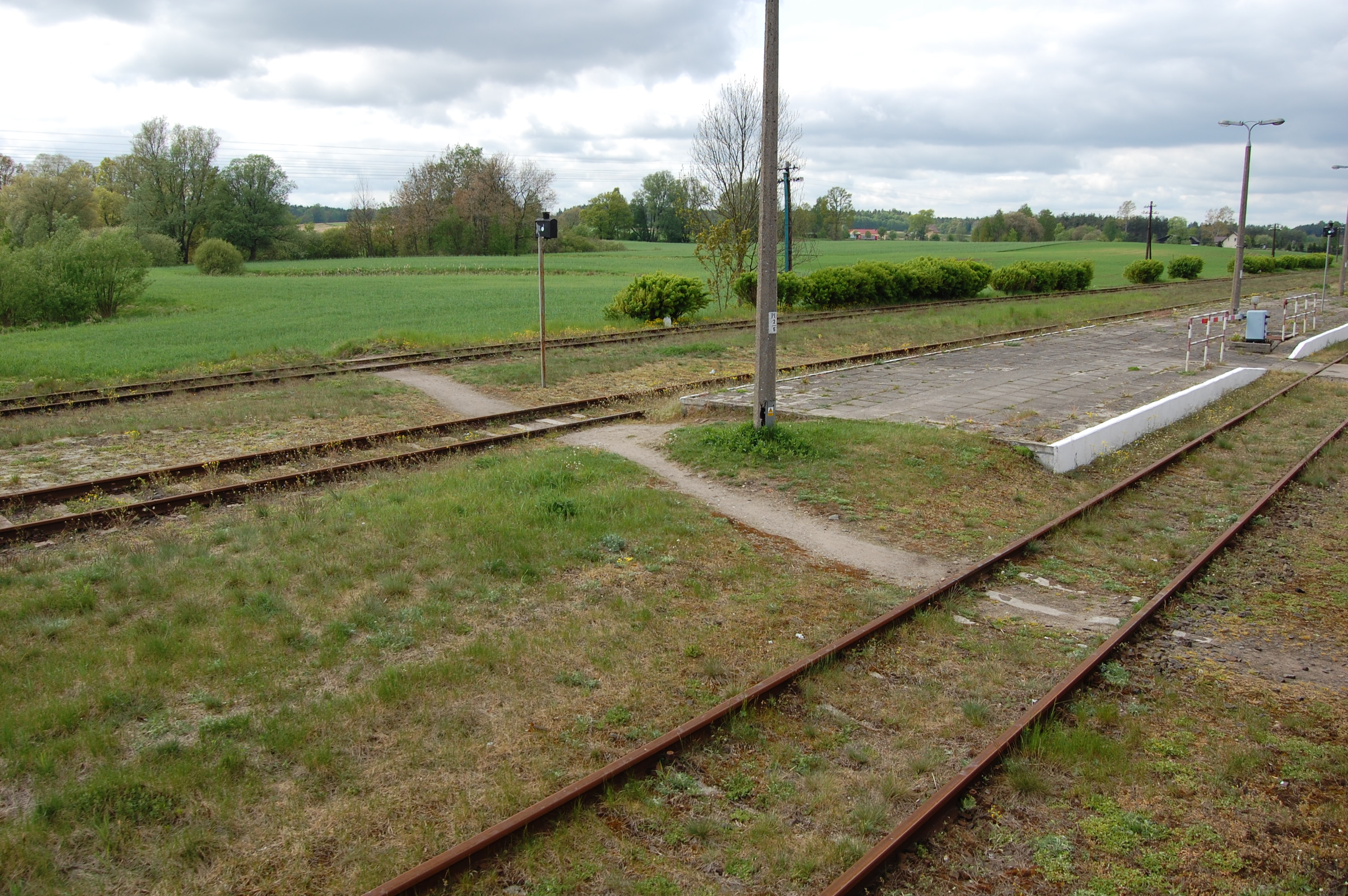 Train station Lipusz